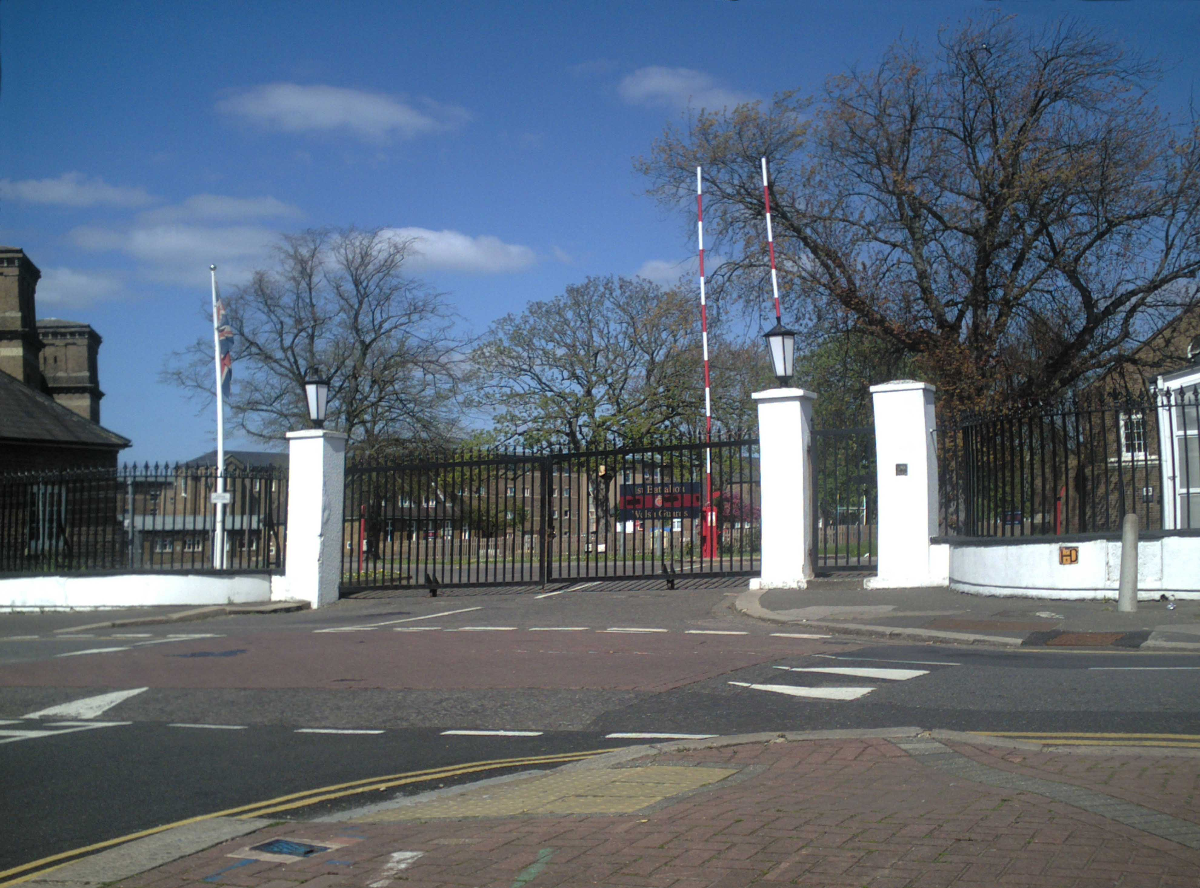 Cavalry Barracks entrance, on Beavers Lane